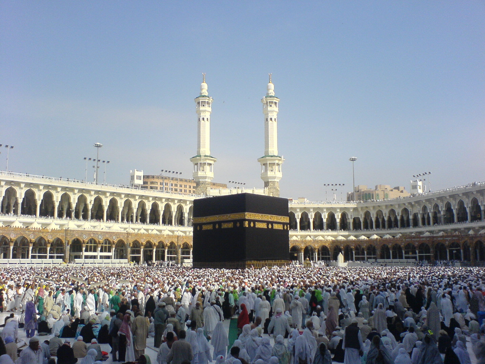 A picture of people performing 'Tawaf' (circumambulating) the Kaaba. This picture taken from the gate of Abdul Aziz seems to divide the Kaaba and the minarets into mirror images of one another.